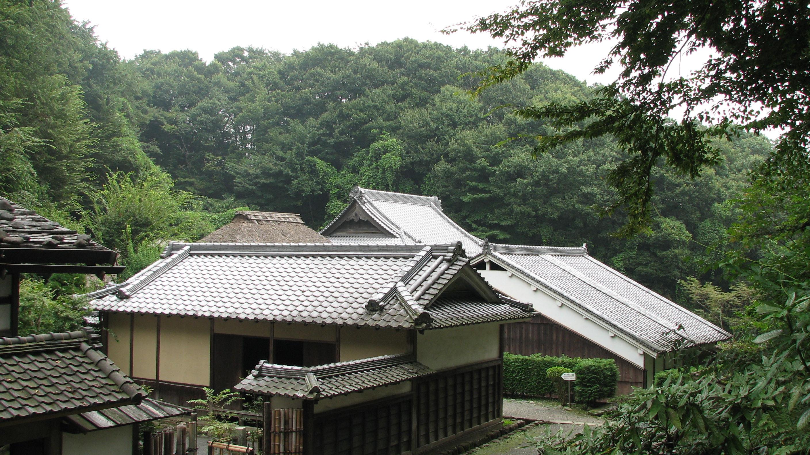 The roofs of Saji house (front) and the Ioka house (back) in the Nihon Minka-en open-air museum, in Kawasaki, Japan.